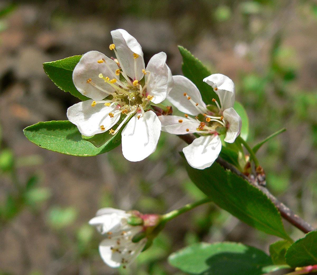 Photo of Prunus subcordata at the Regional Parks Botanic Garden, Berkeley, California